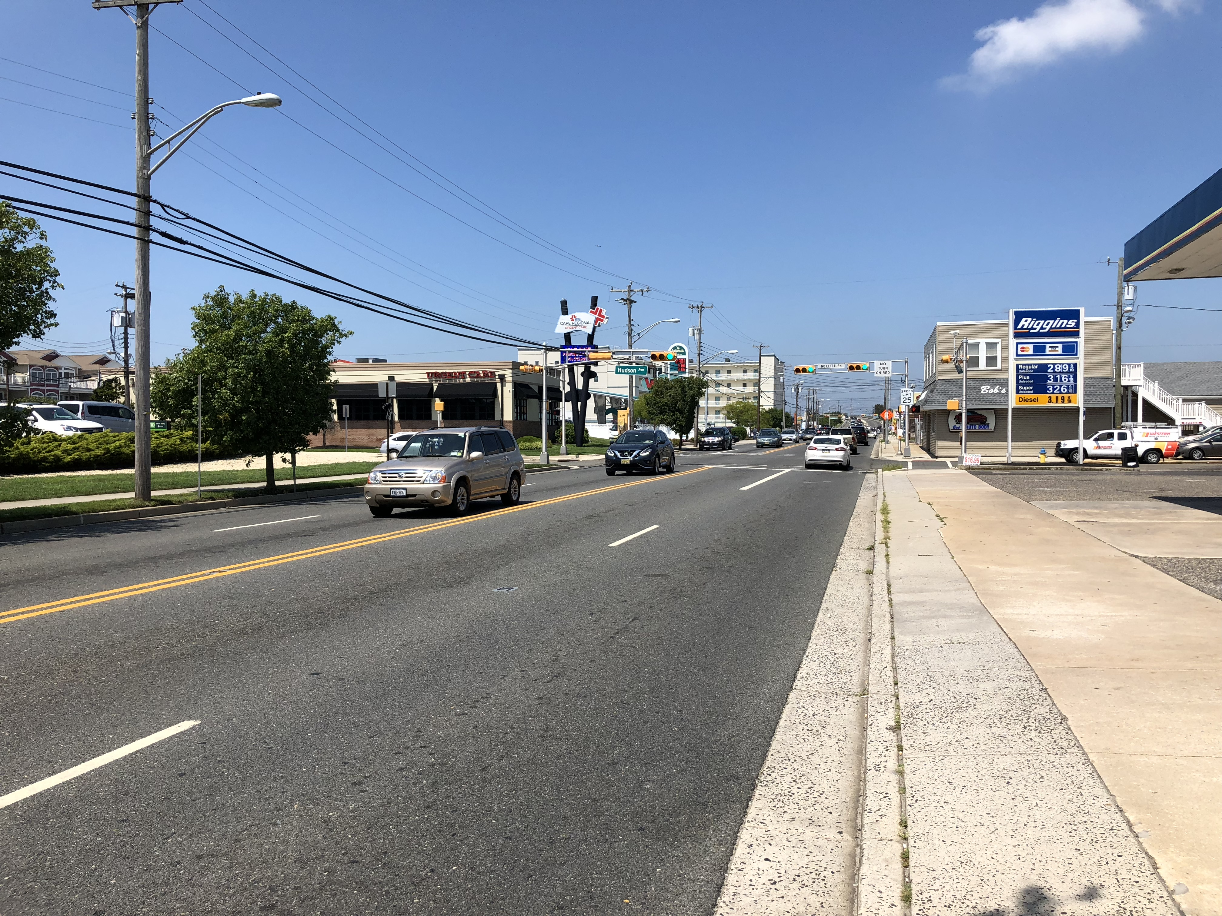 View north along New Jersey State Route 47 (Rio Grande Avenue) between Park Boulevard and Hudson Avenue in Wildwood, Cape May County, New Jersey